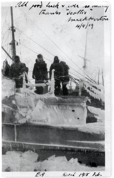 Submarine E9 alongside at Reval, 1915. Authographed by Max Horton in 1919.